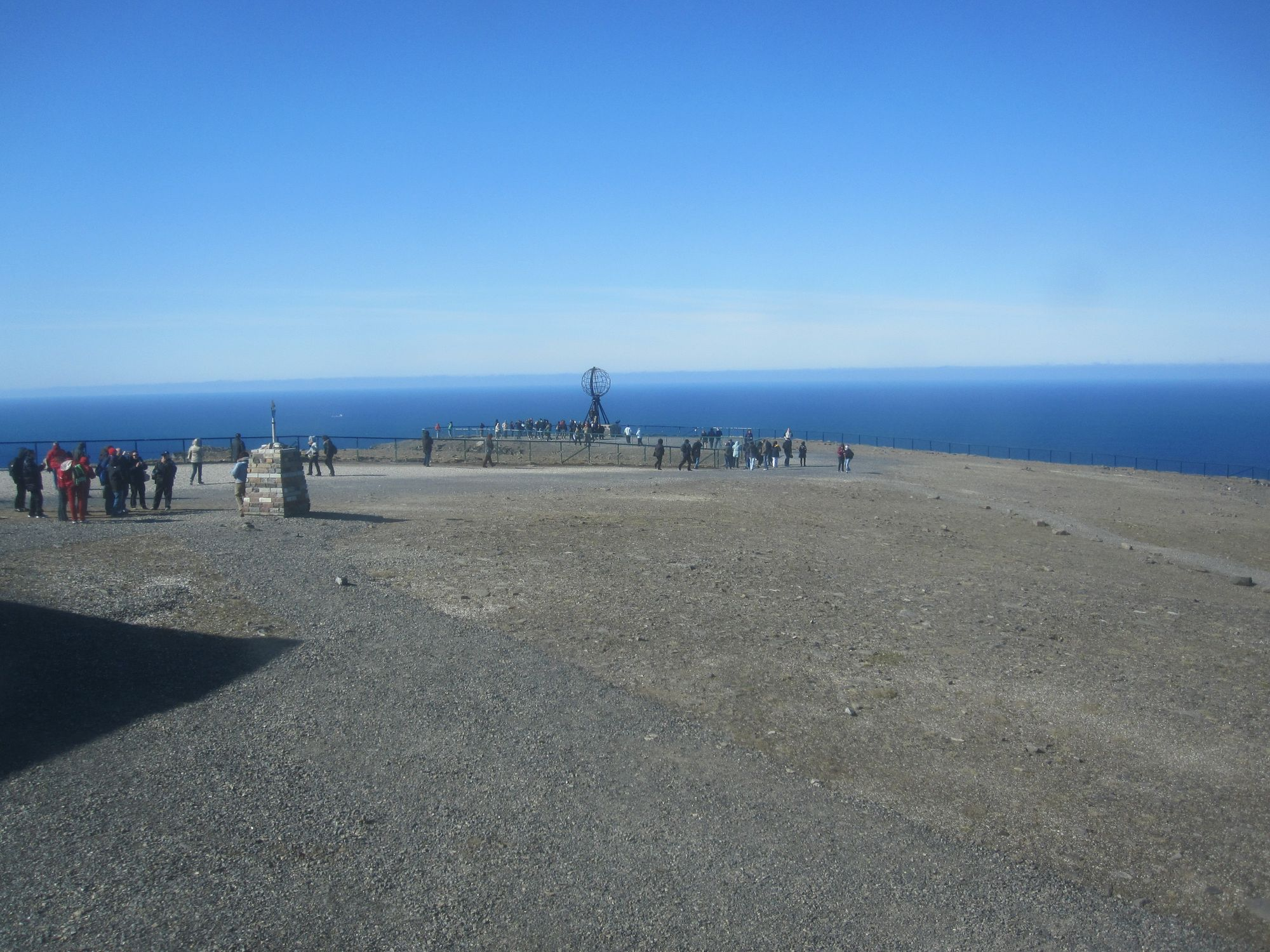 North Cape seen from the visitors center